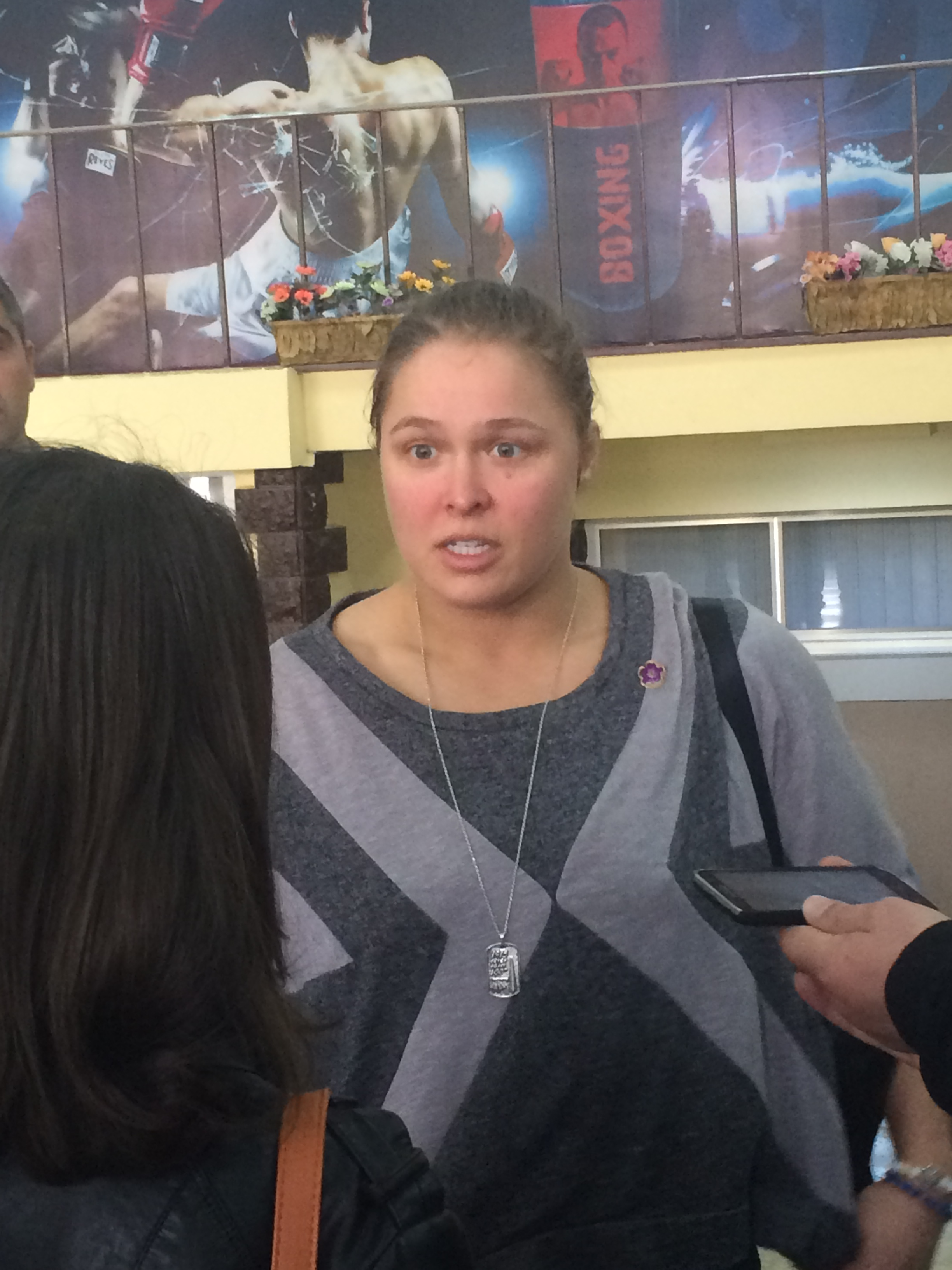 Ronda Rousey after her open workout at Dinamo center, Yerevan, Armenia.